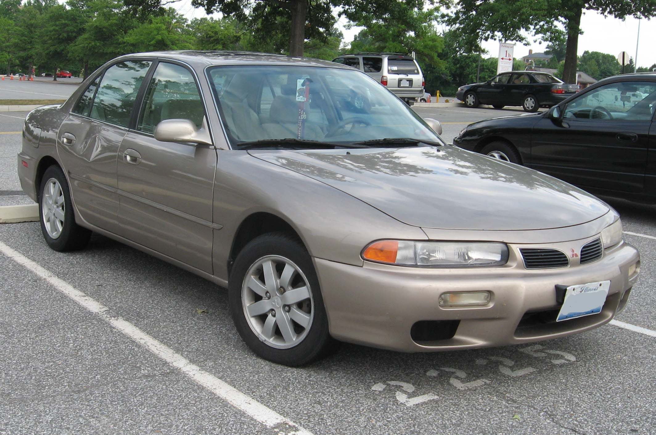 1997-1998 Mitsubishi Galant photographed in USA.